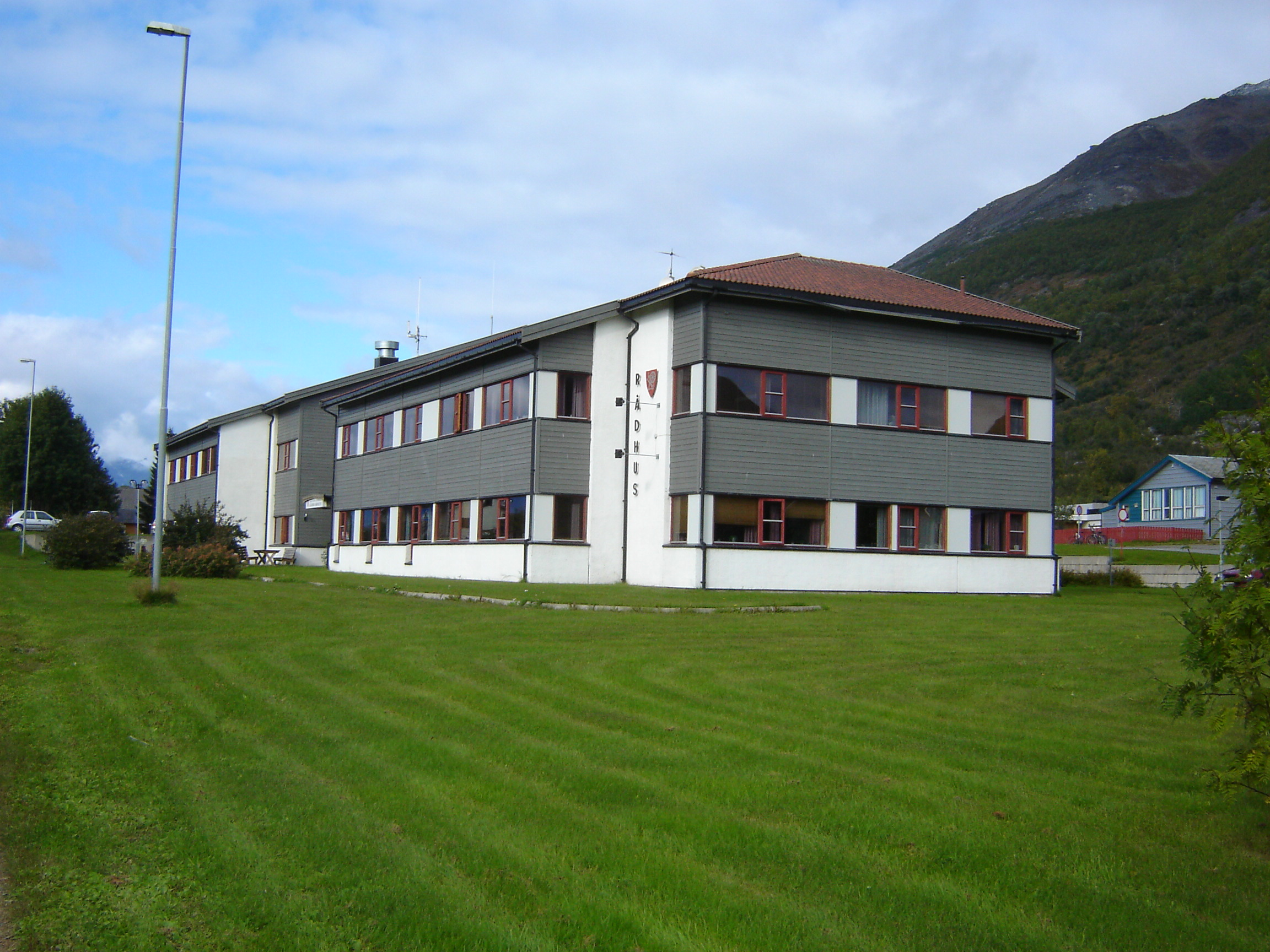 Town hall of the municipality of Kåfjord, Olderdalen, Troms, Norway